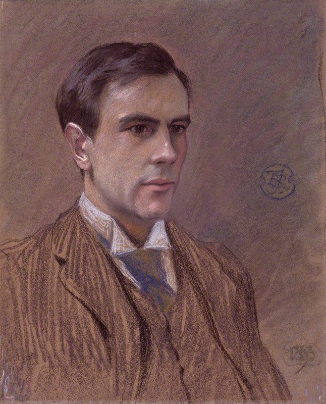 Roger Fry (1866-1934), chalk/NPG 3151. Goldsworthy Lowes Dickinson, 1893, given by wish of the sitter's sister, Miss Lowes Dickinson, 1943